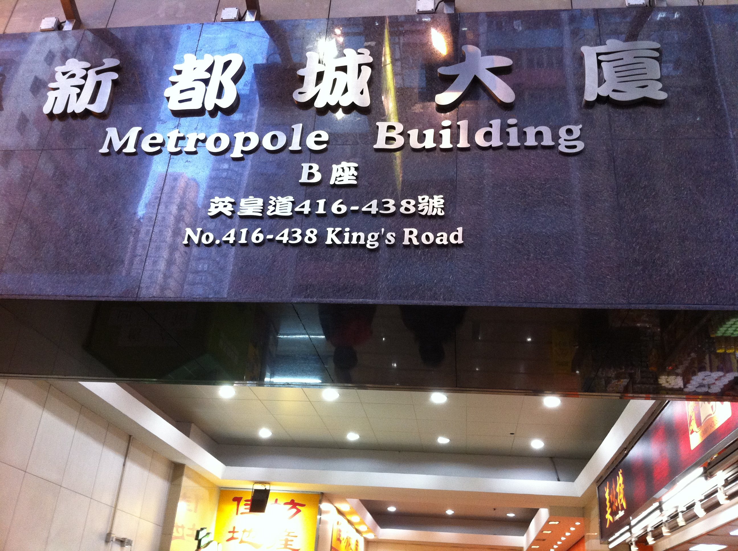 北角英皇道新都城大廈, Metropole Building, King's Road, North Point, Hong Kong